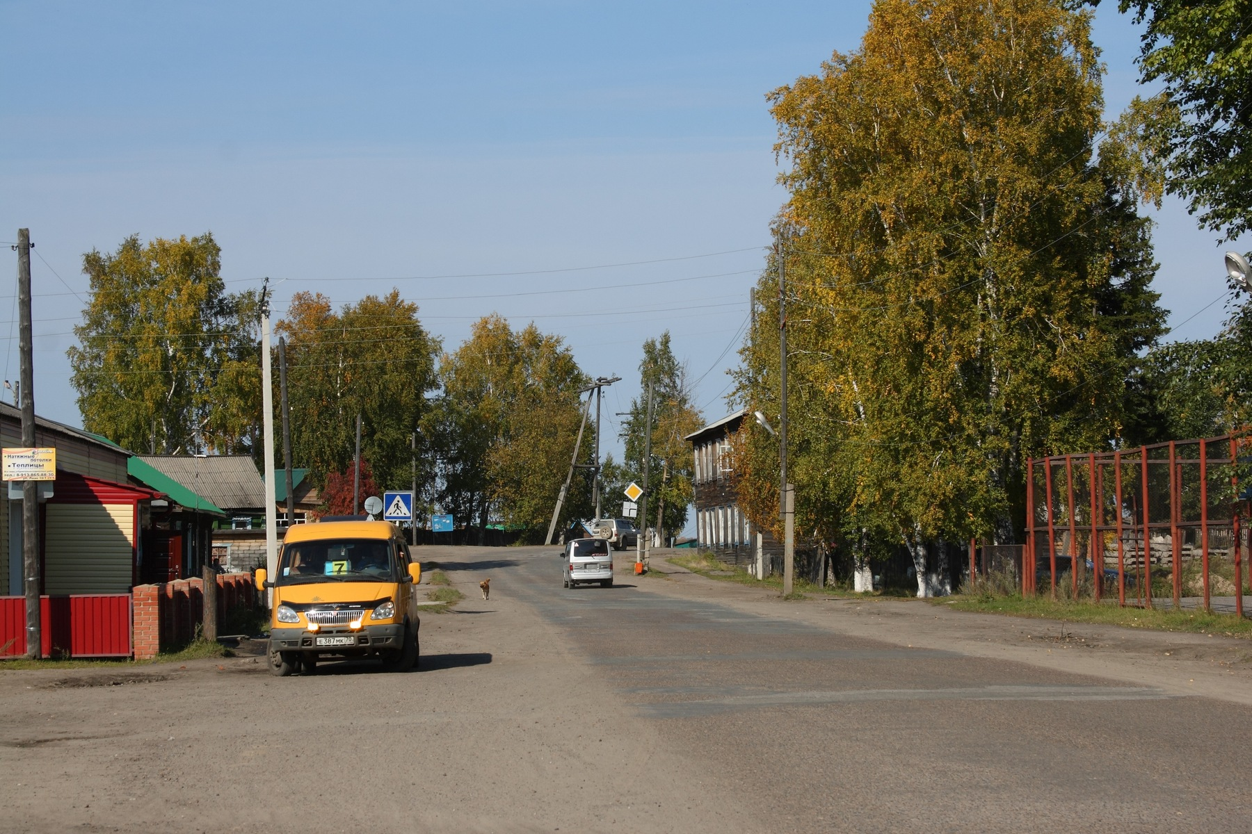 Togur, a village in Kolpashevsky District, Tomsk Oblast, Russia.